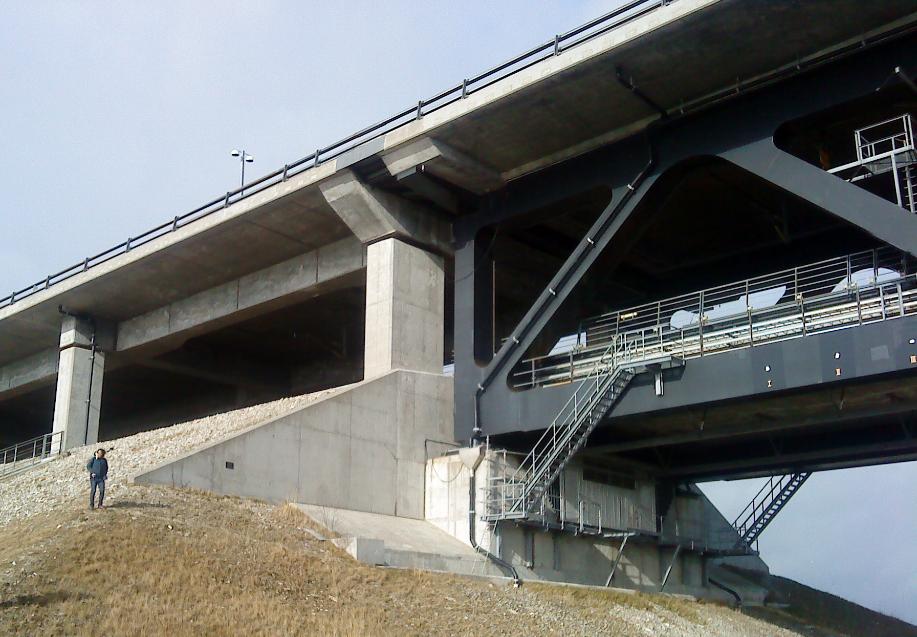 The abutment of the Oresund bridge on the artificial island Peberholm.